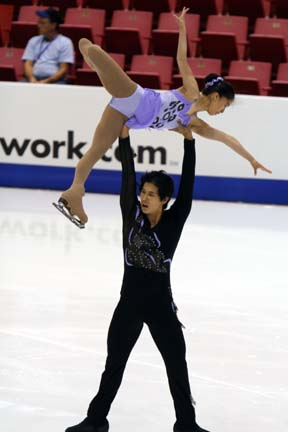 Staples Center